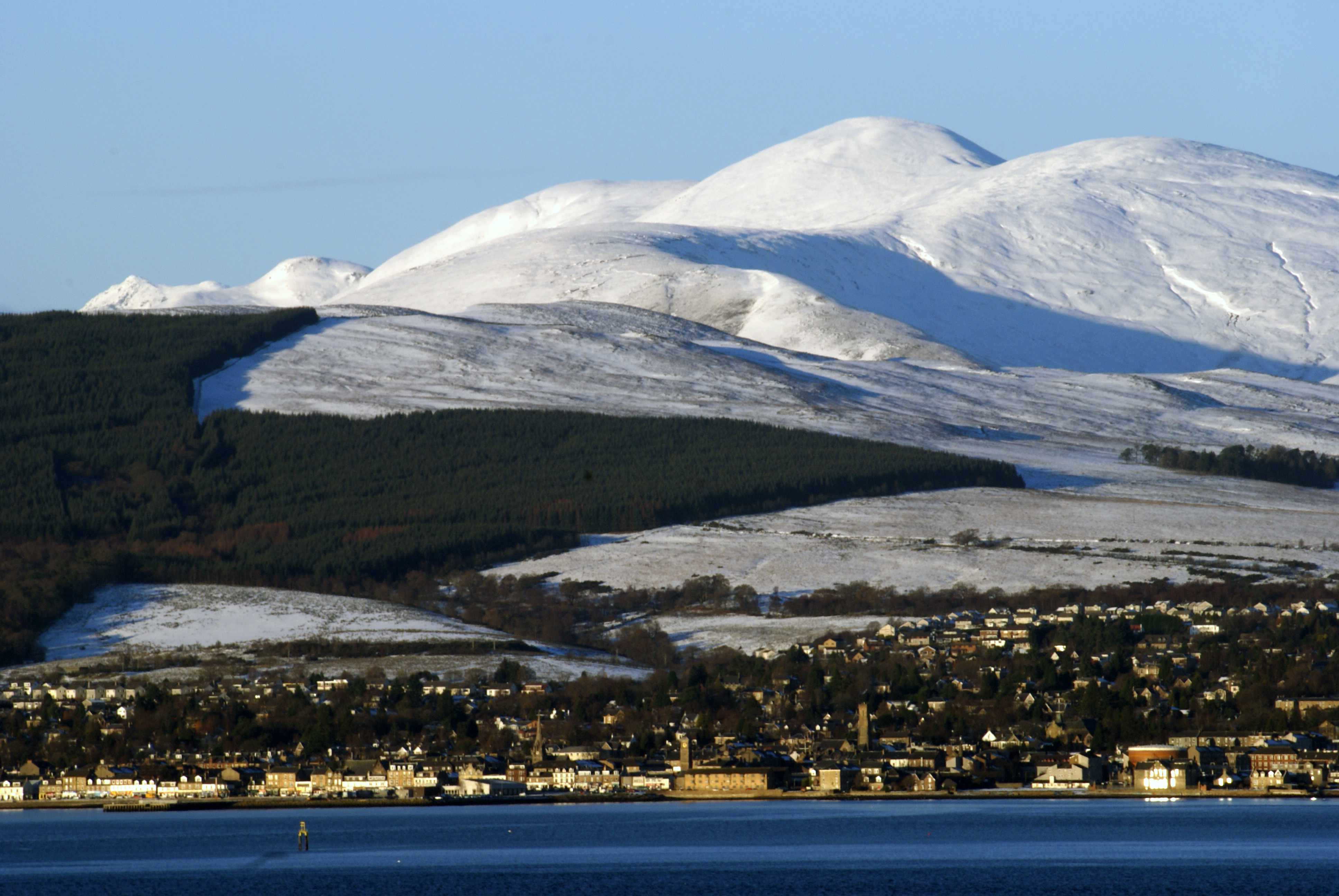 Helensburgh and surrounding hills, seen from Greenock to the south. Image captured using a telephoto lens.